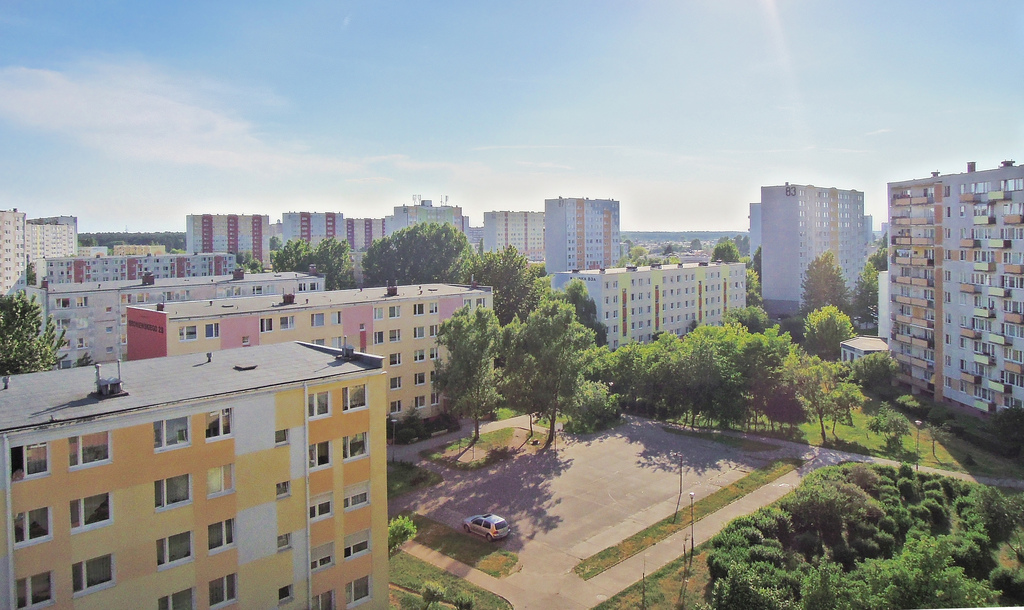 Apartment blocks in Południe, Włocławek, Poland